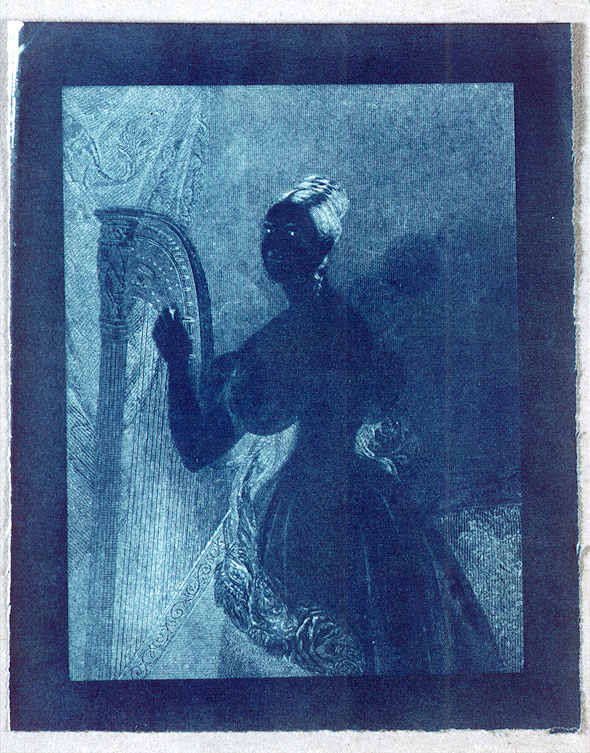 An experimental cyanotype of an engraving of a lady with a harp, by Sir John Herschel (1792-1871), 1842.